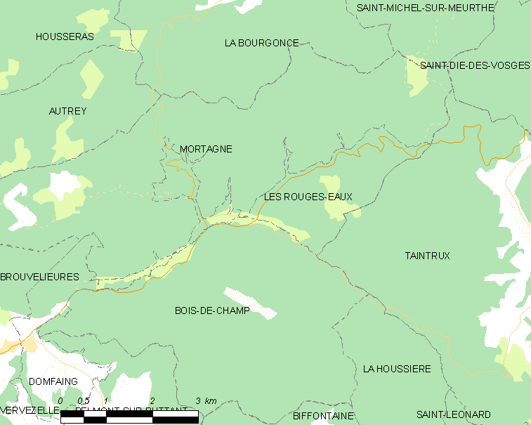 Map of French municipality Les Rouges-Eaux